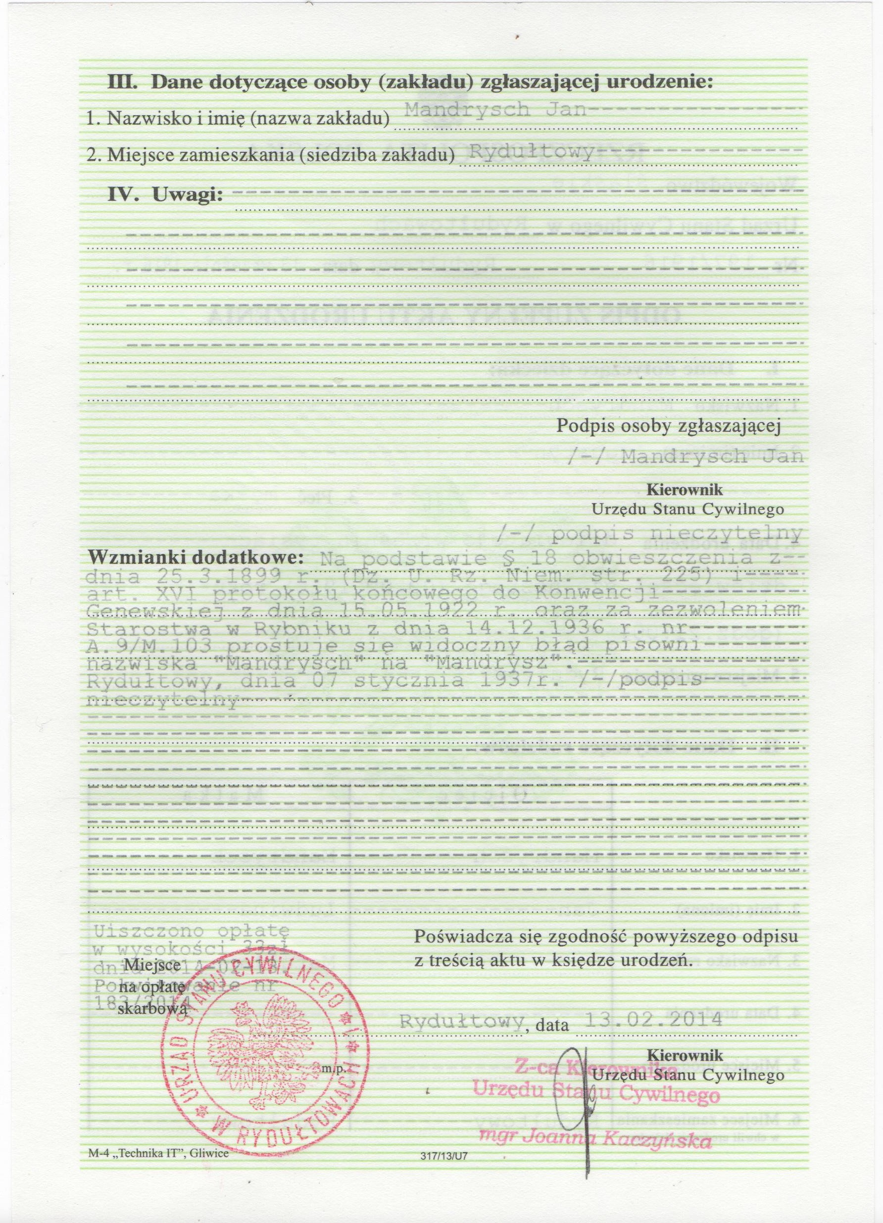 Second page of birth certificate with lawlessly changed name by polish governament in 1937 year